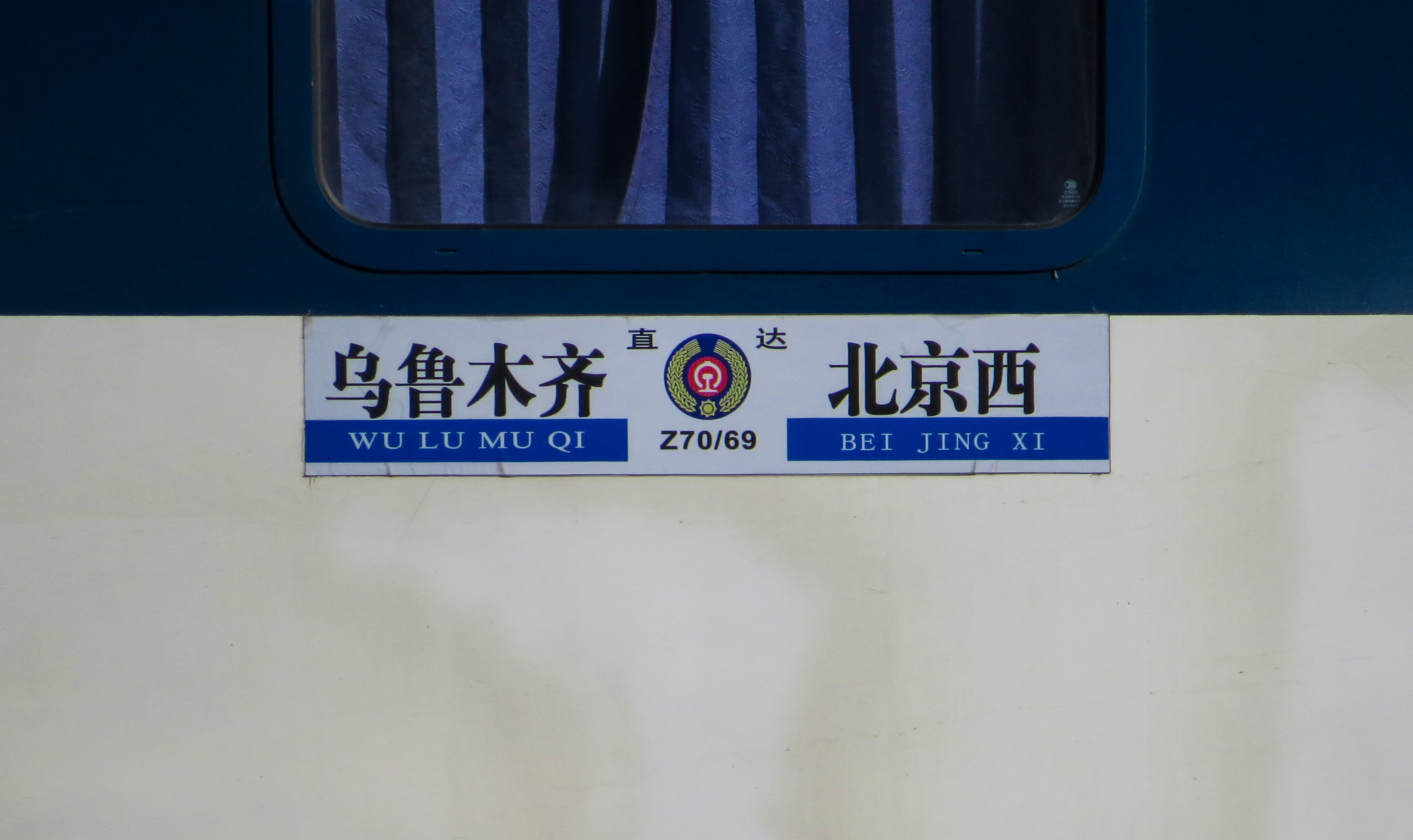 Terminus switched to New Urumqi Station since 1 August 2016.